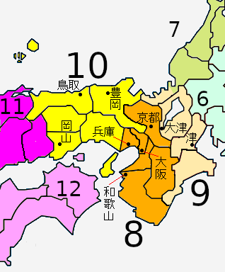 The center orange area is the 8th Divisional Region. The east neighbor is the 9th and the west yellow was the 10th. These three compose the Fourth Army Region. From 'Six Regions Chindai Table' of 1875.